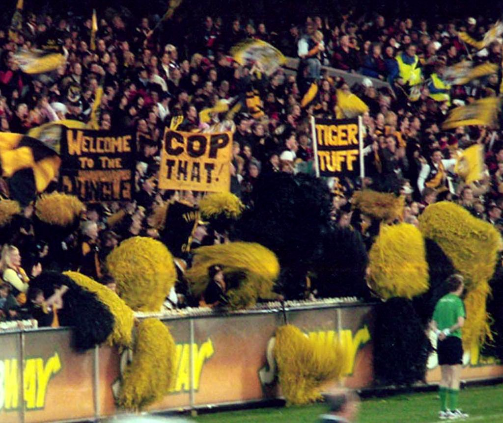 Richmond Cheer Squad Rd 21 2006 (Australian rules football). Detail from original image, focusing on the the giant pom-pons ("floggers").